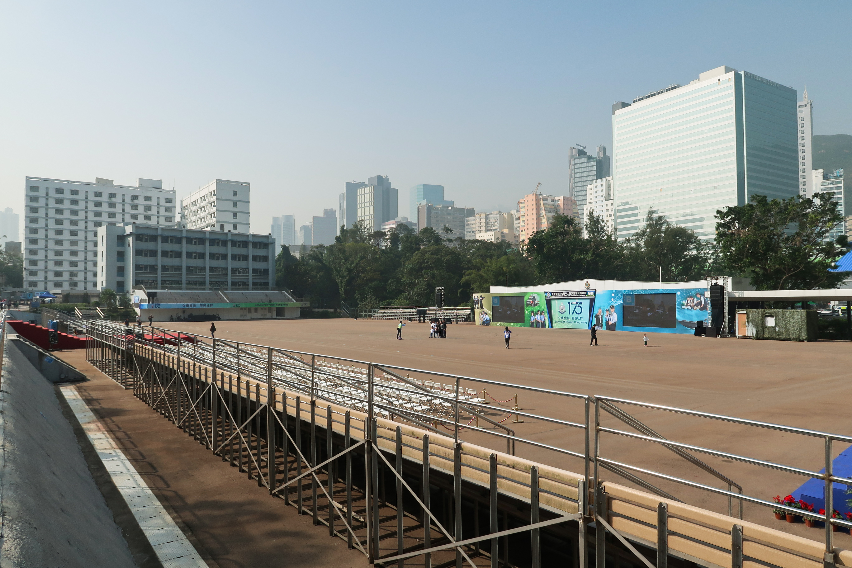 Hong Kong Police College Main Drill Square